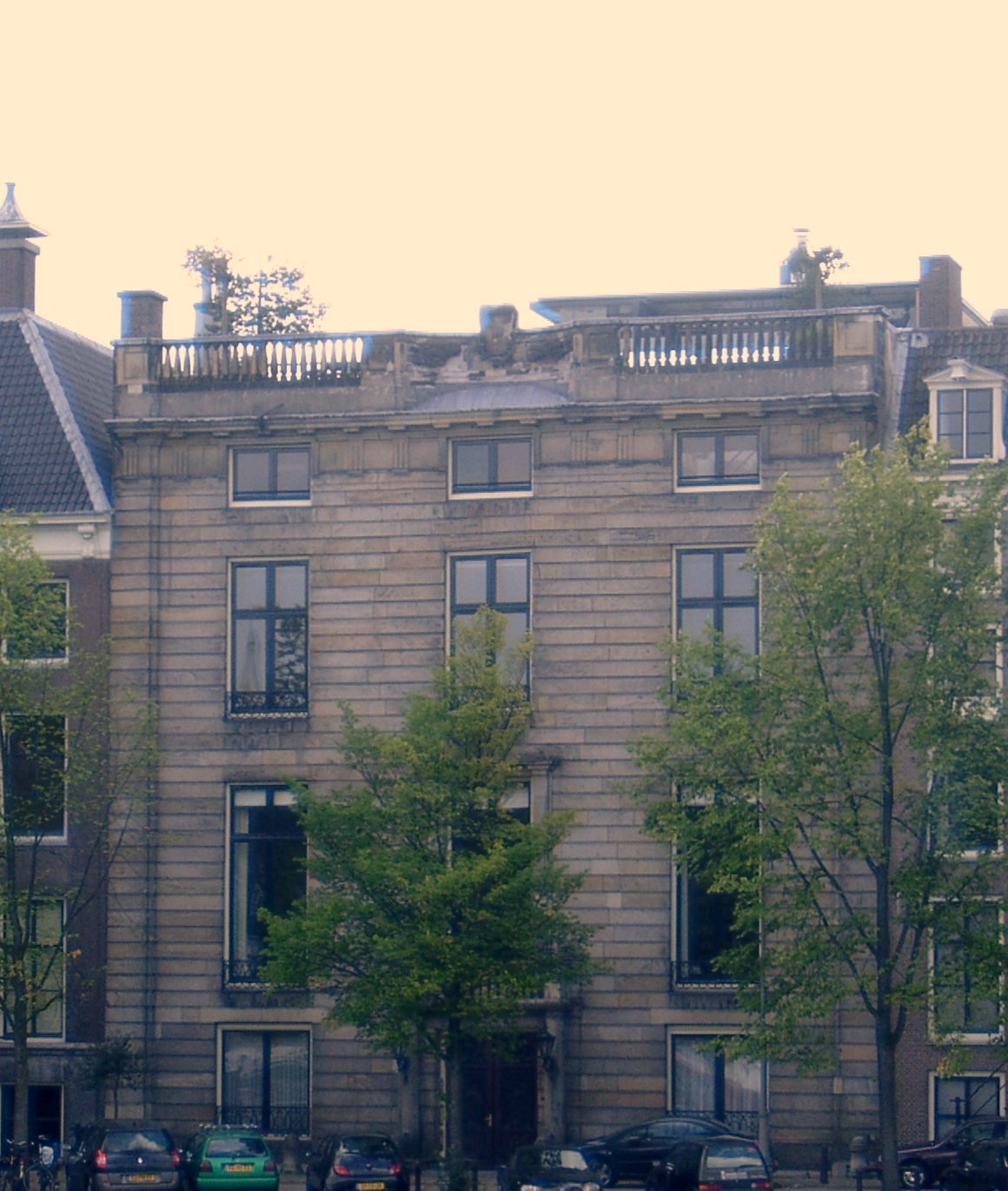 The mansion of Coenraad van Beuningen at the Amstel, Amstel 216 Amsterdam